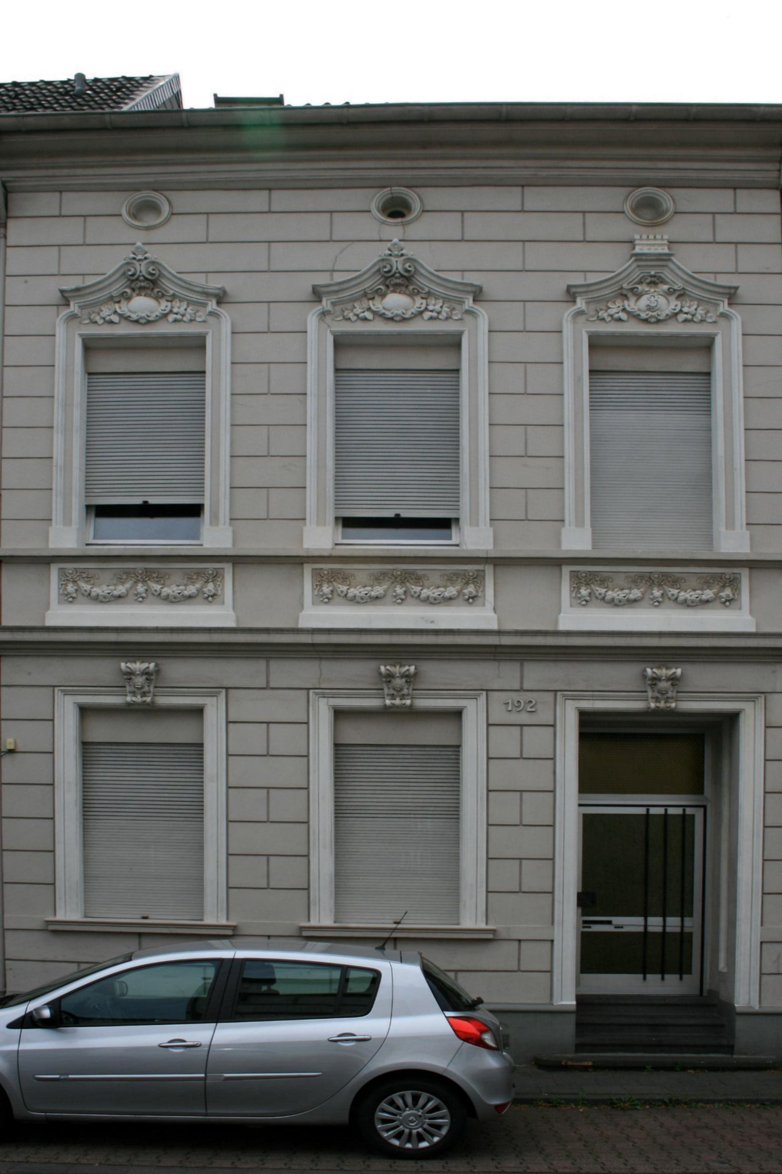 Cultural heritage monument No. M 028 in Mönchengladbach